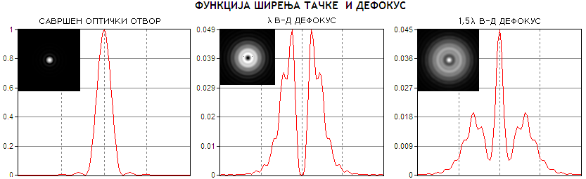 ДЕЈСТВО ДЕФОКУСА НА ВРХ ФУНКЦИЈЕ ШИРЕЊА ТАЧКЕ